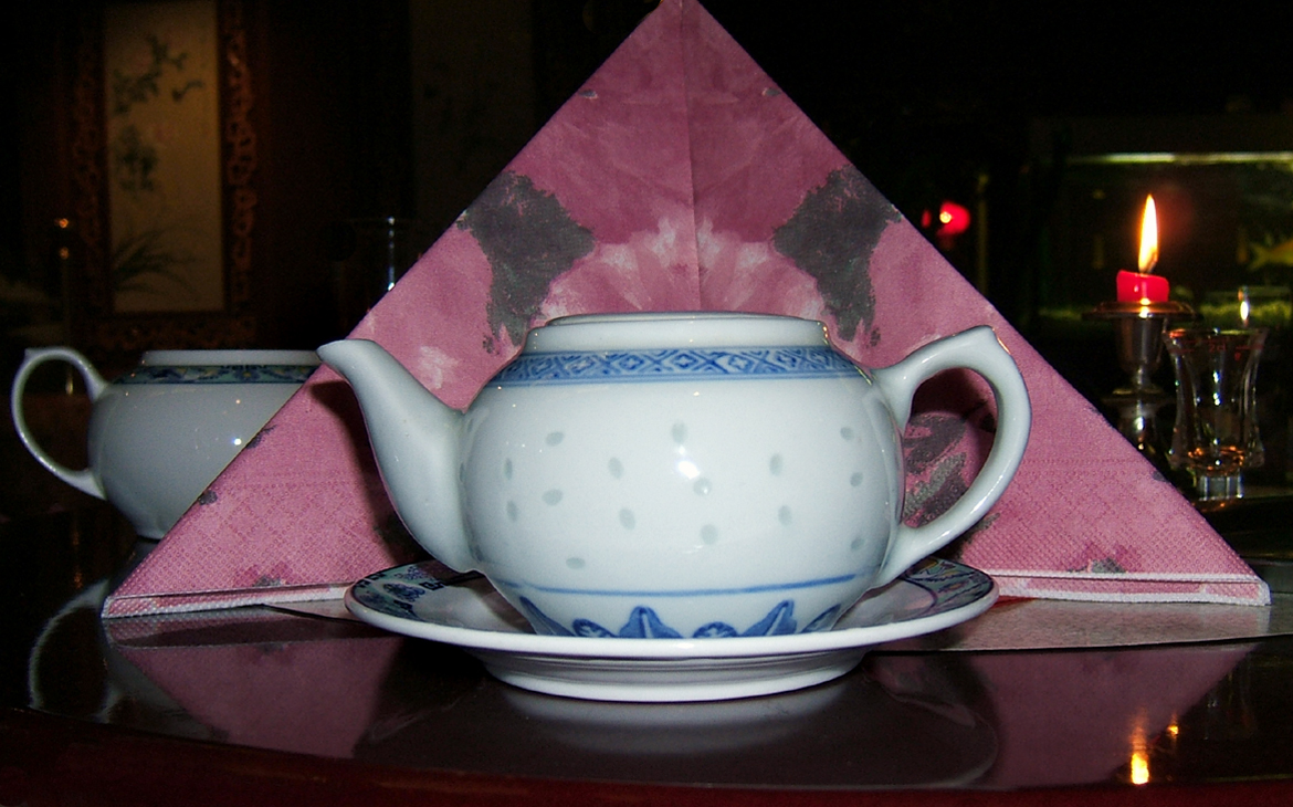 Porcelain tableware of a chinese restaurant